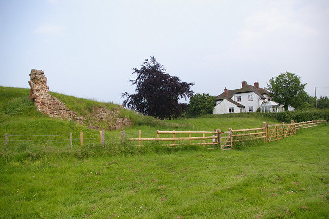 Remains of Shrawardine Castle This castle was built in the mid 12th century, and destroyed in the 17th century. Some of its stones were used to repair Shrewsbury Castle. To be honest, there is not a lot to see now, although my photo does not show its fullest extent. For example, you can clearly see archways in the stonework when you're there.